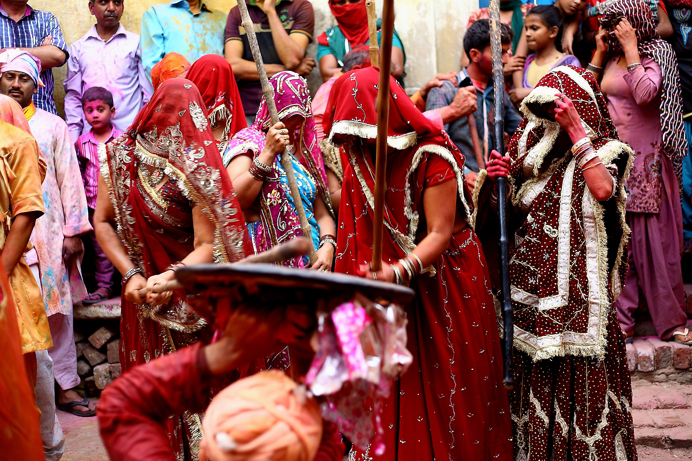 Latmar women hit gopi (shepaerds) from Nadgaon and gopi protect themselves from their shields